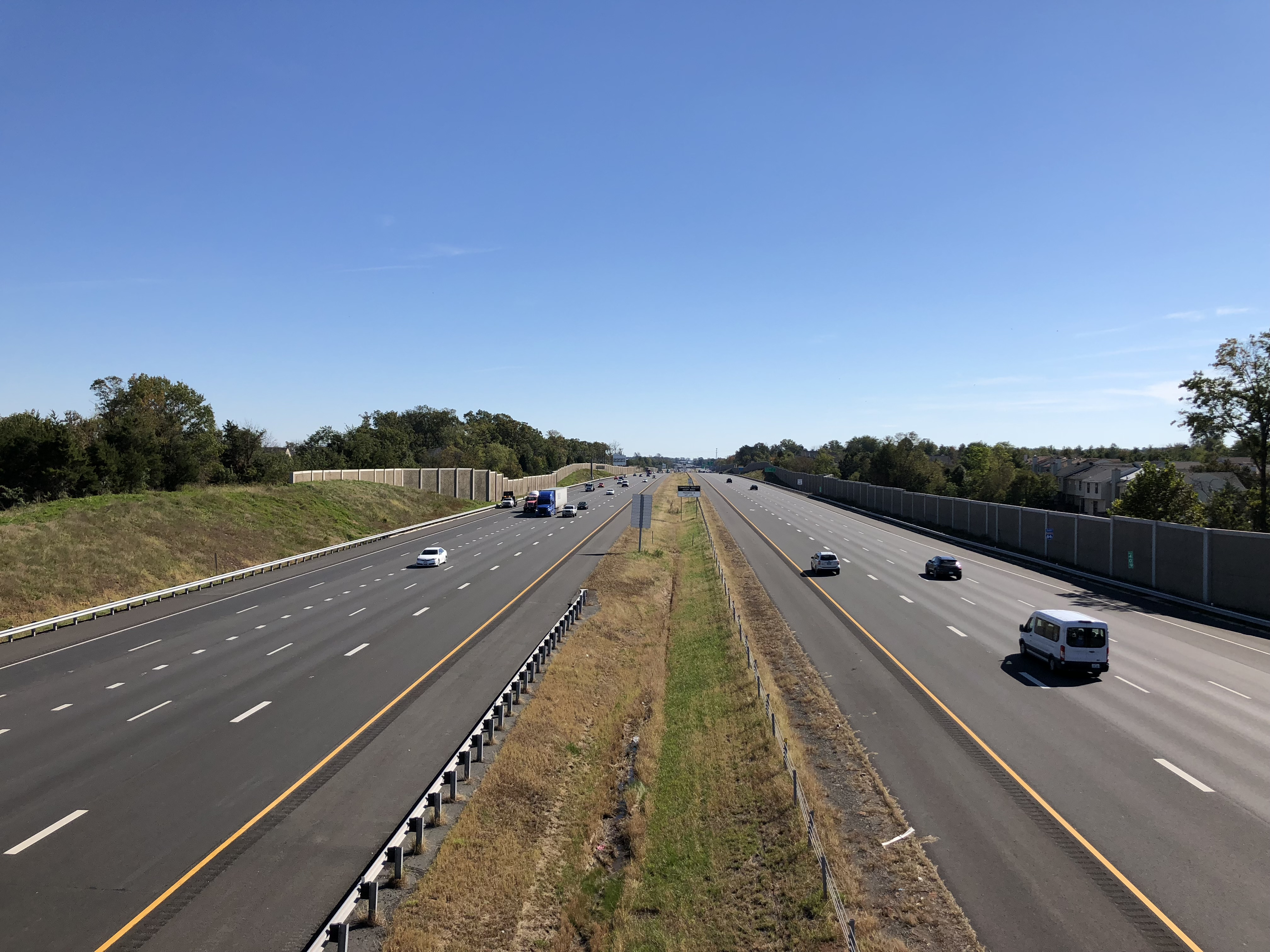 View east along Interstate 66 from the overpass for Jefferson Street (Virginia State Route 625) in Haymarket, Prince William County, Virginia